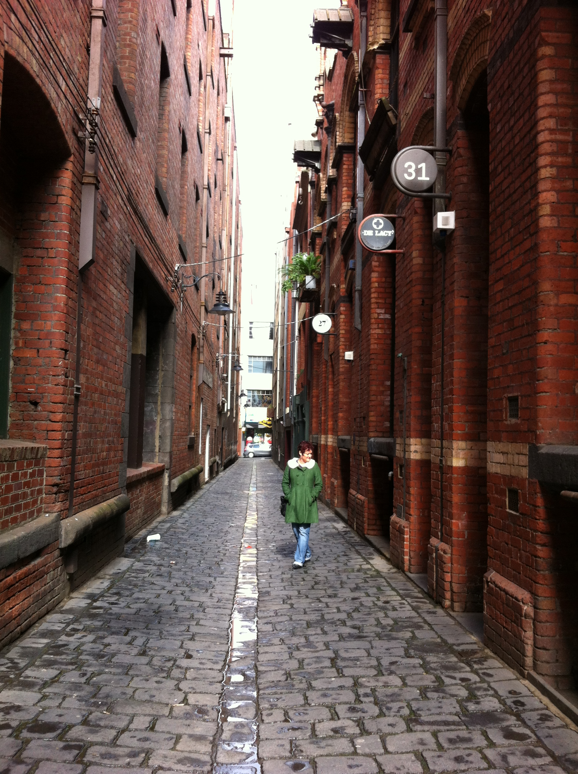 Warehouses built in the 1880's at 23-31 Niagara Lane Melbourne. There are historic "Barrel Hoists" still present.